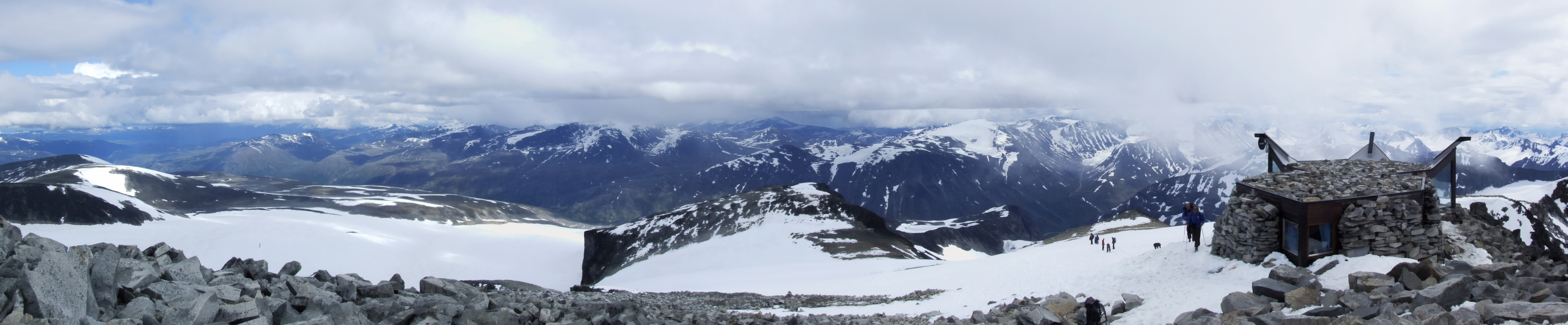 View from Galdhøpiggen to east. On the right is mountain hut Knut Voles hytte